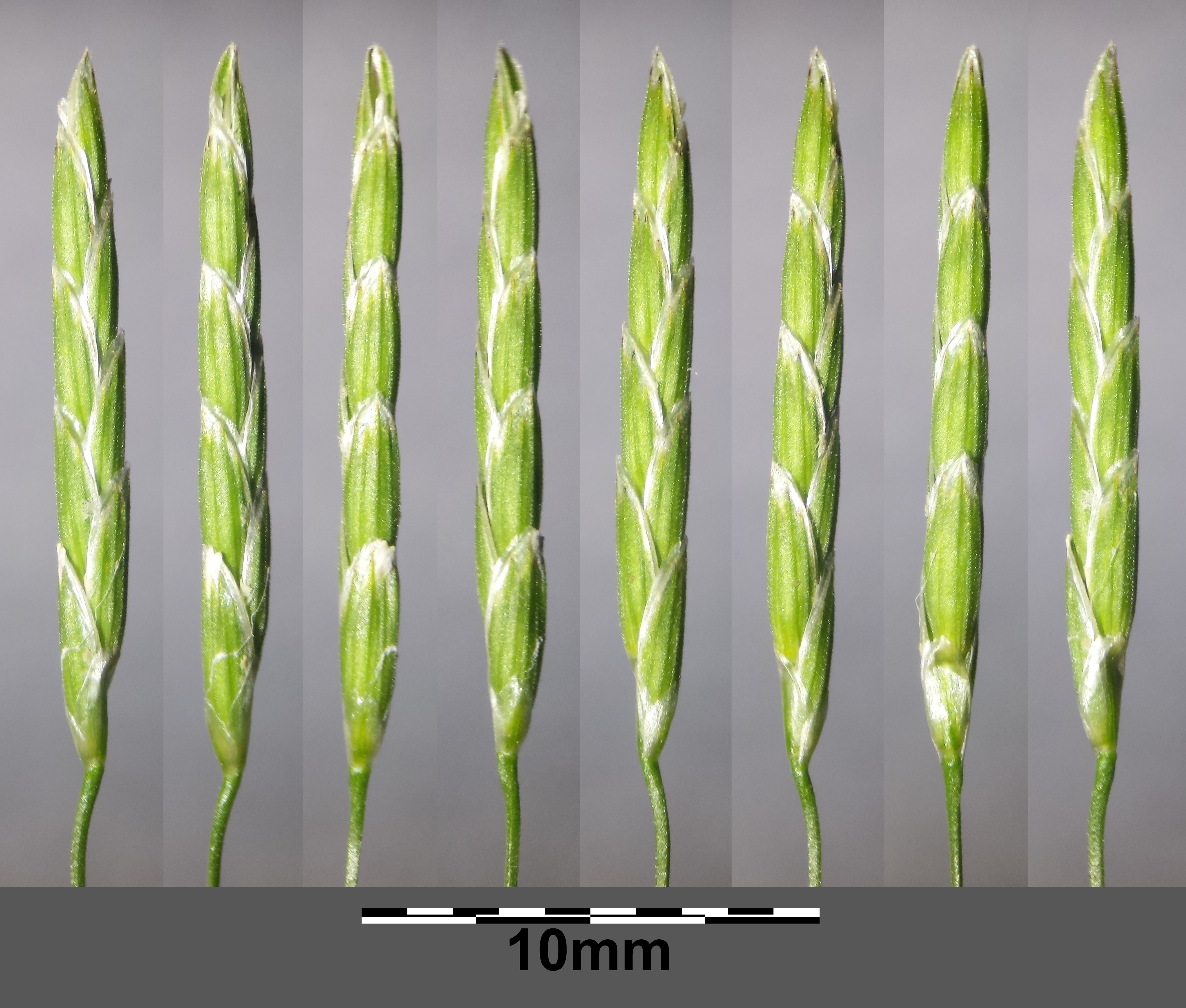 Spikelet Taxonym: Glyceria notata ss Fischer et al. EfÖLS 2008 ISBN 978-3-85474-187-9 Location: Bergau, district Hollabrunn, Lower Austria - ca. 230 m a.s.l. Habitat: brookside